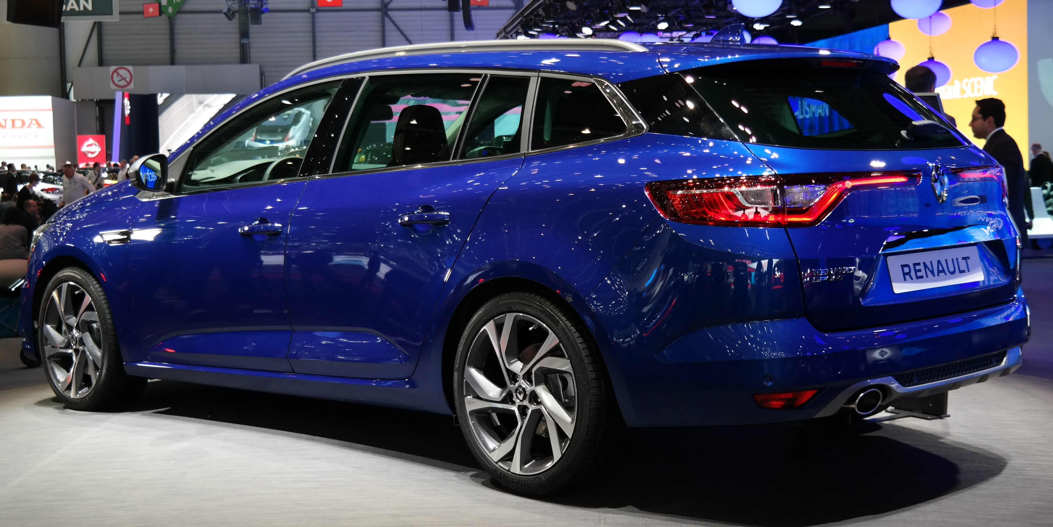 Geneva Motor Show 2016 (photo taken on the first press day)